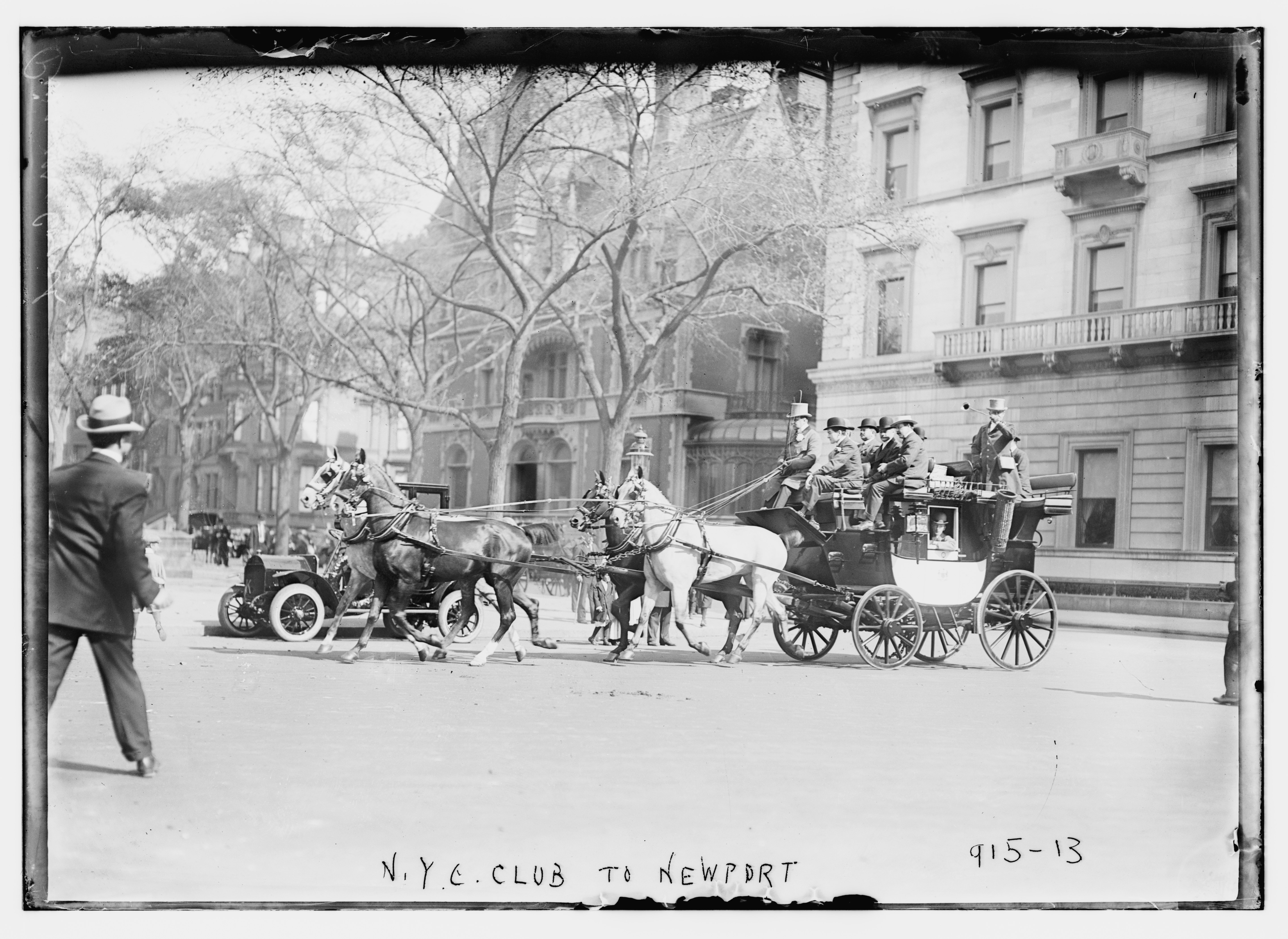 Title: NYC Club in Pioneer Coach on way Newport, New York Abstract/medium: 1 negative : glass ; 5 x 7 in. or smaller.